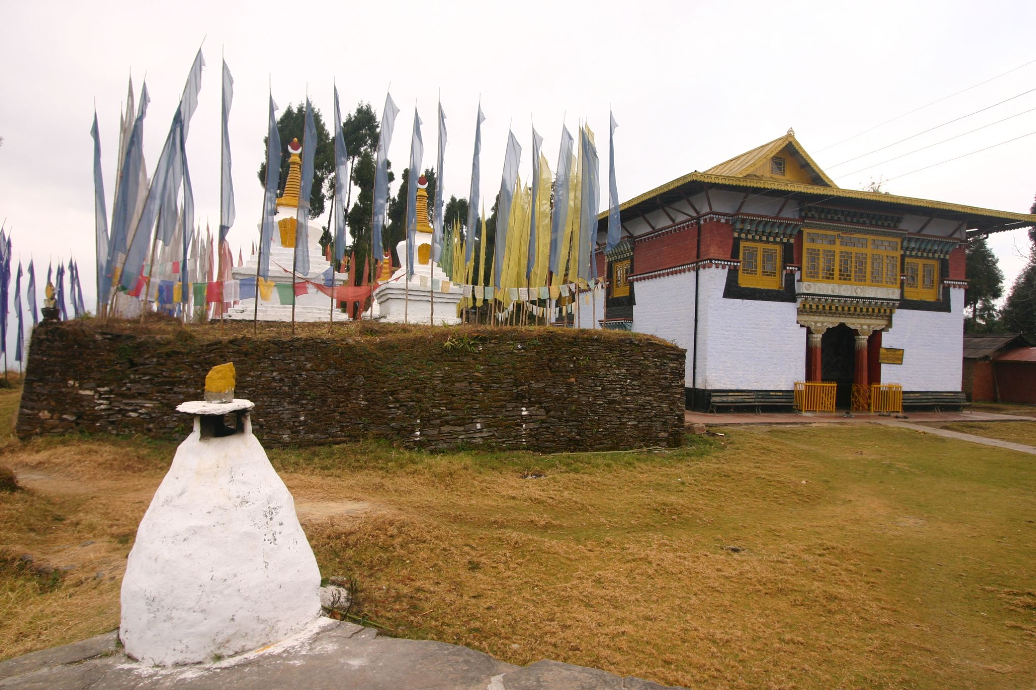 The renowned Sanga-Choling Monastery is to be found on a ridge above Pelling. The literal meaning of 'Sanga Choeling' is 'the island of esoteric teaching'. The spiritual island was built in 1697 and perhaps making it one of the oldest monasteries of Sikkim.